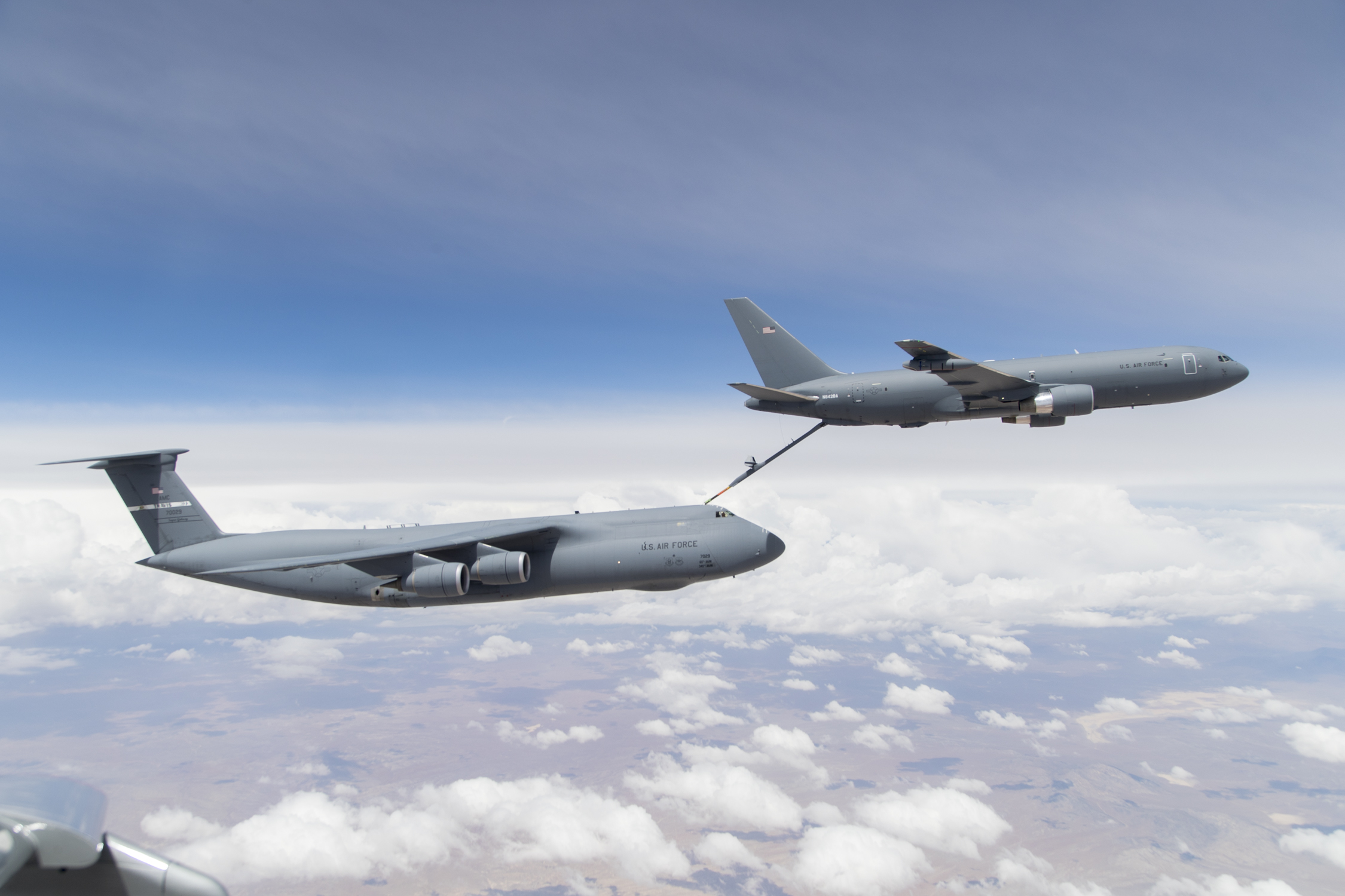 EDWARDS AIR FORCE BASE, Calif. (April 29, 2019) KC-46 out of EDW makes first-ever contact with C-5 Galaxy out of Travis Air Force Base. (U.S. Air Force photo by Christian Turner)